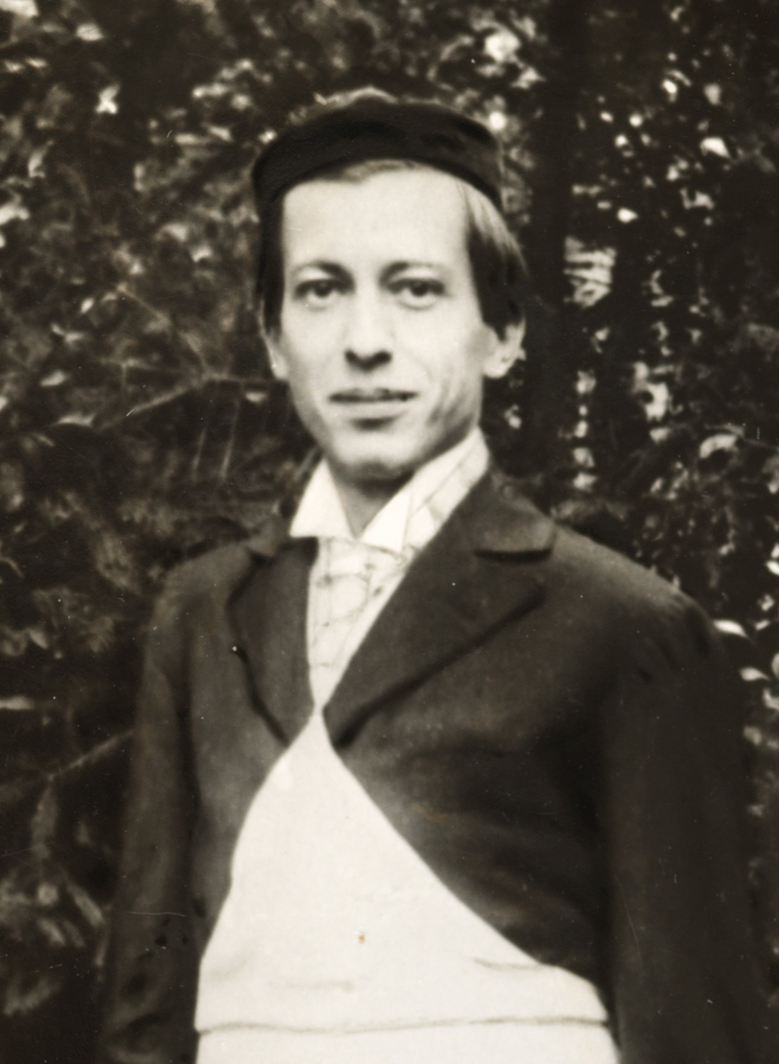 Nicolae Paulescu, while practising medicine in Paris.